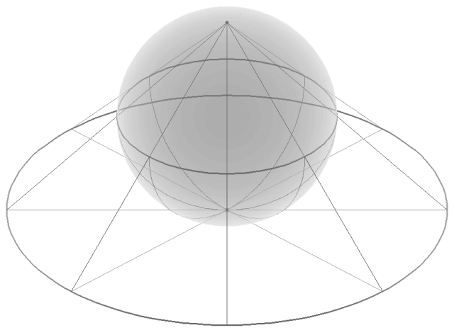 This image illustrates in 3D a stereographic projection from the north pole onto a plane below the sphere.